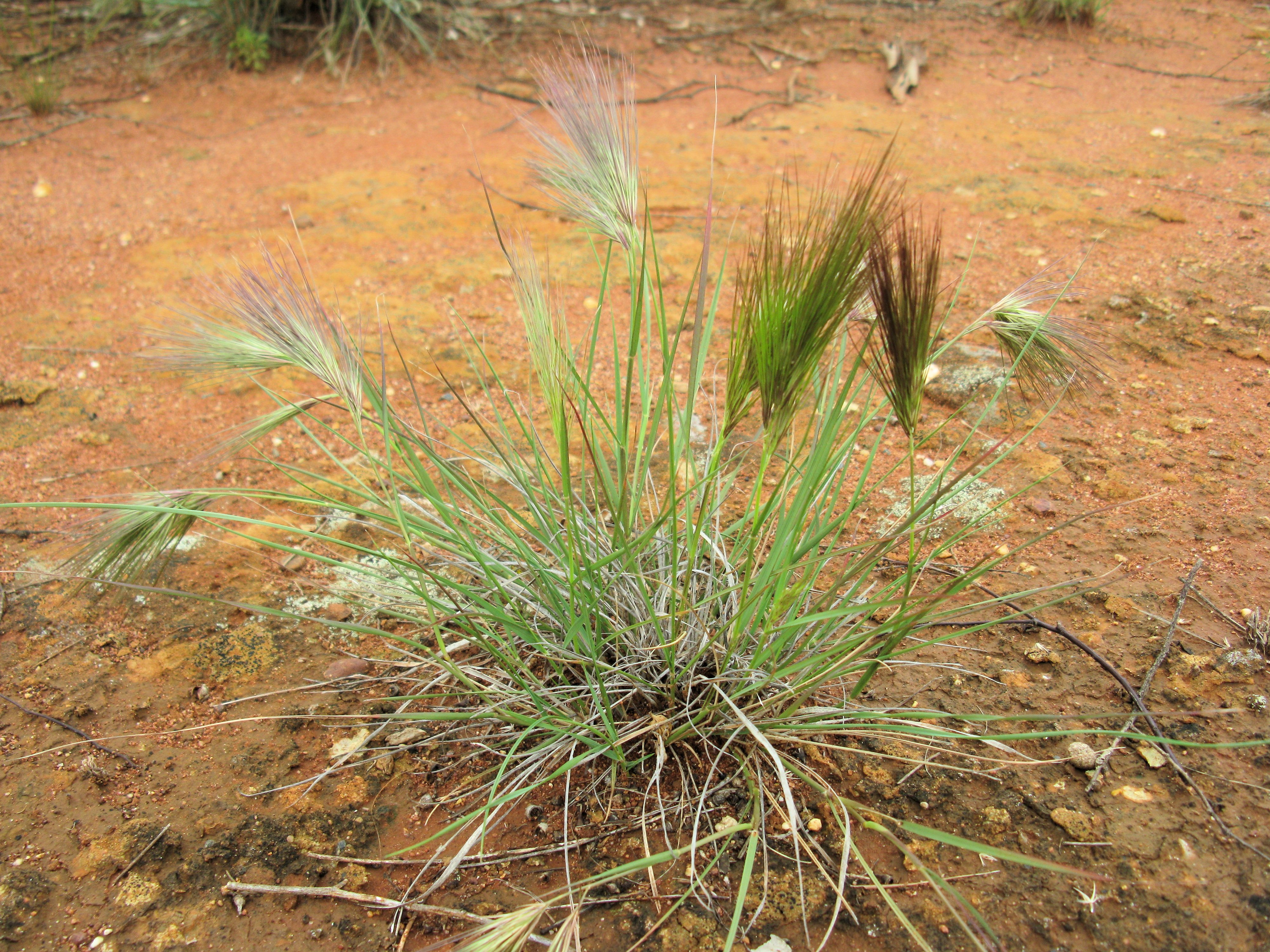 Native, warm-season, short, tufted, tussocky perennial, to 40 cm tall.